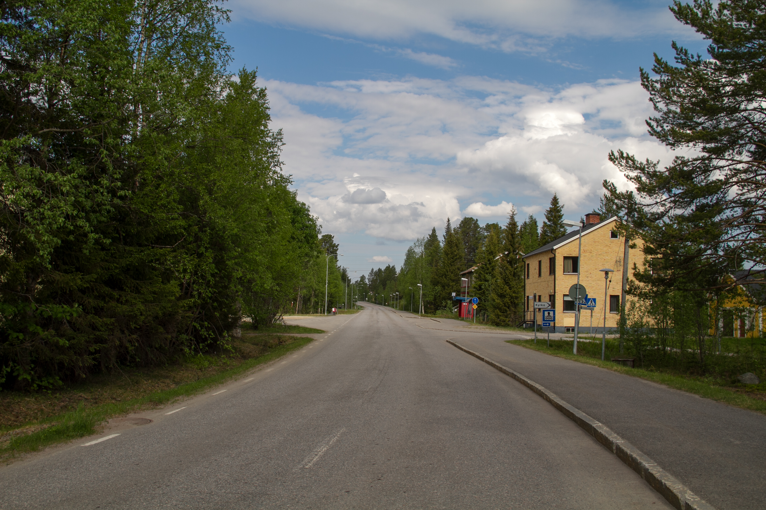 Arjeplogsvägen in Slagnäs, Arjeplog municipality, Norrbotten county, Sweden.